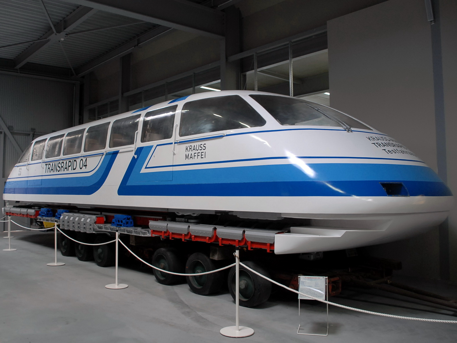 Transrapid 04 in the Museum of Technics in Speyer.